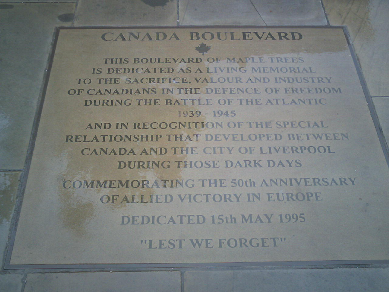 A photograph of the plaque found at Canada Boulevard in Liverpool, UK.